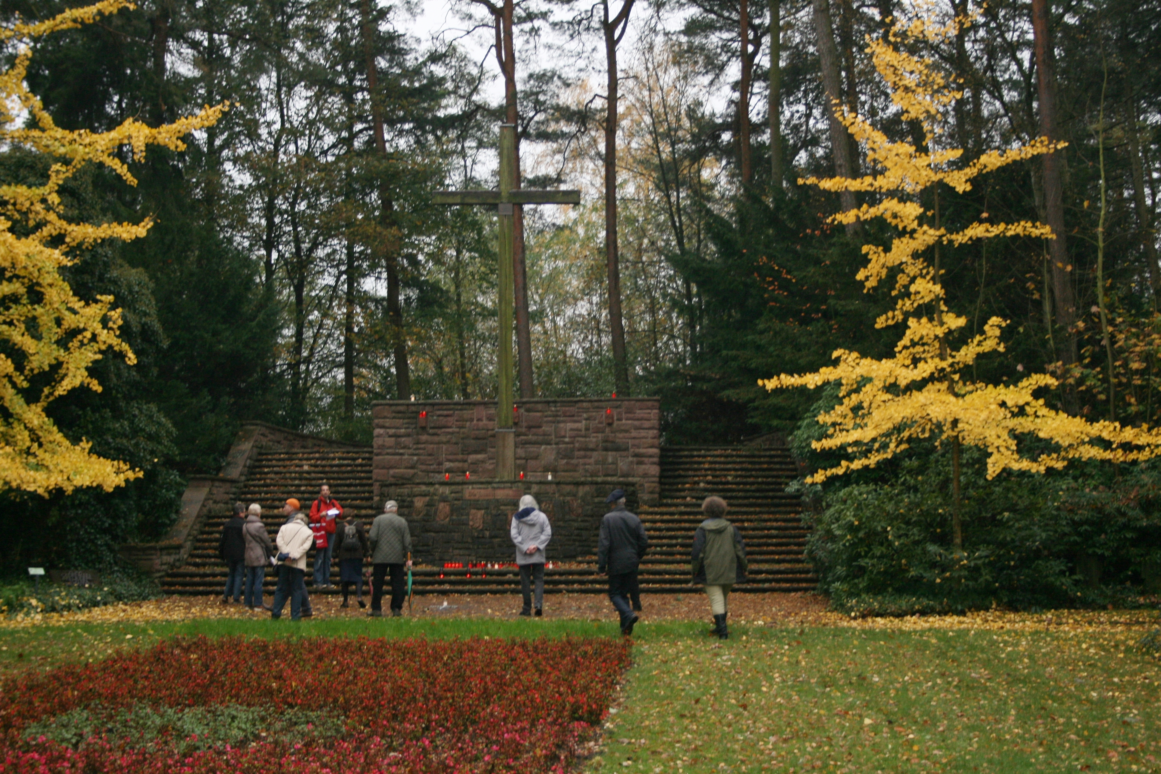 Monument for the soldiers, who died in Second World War